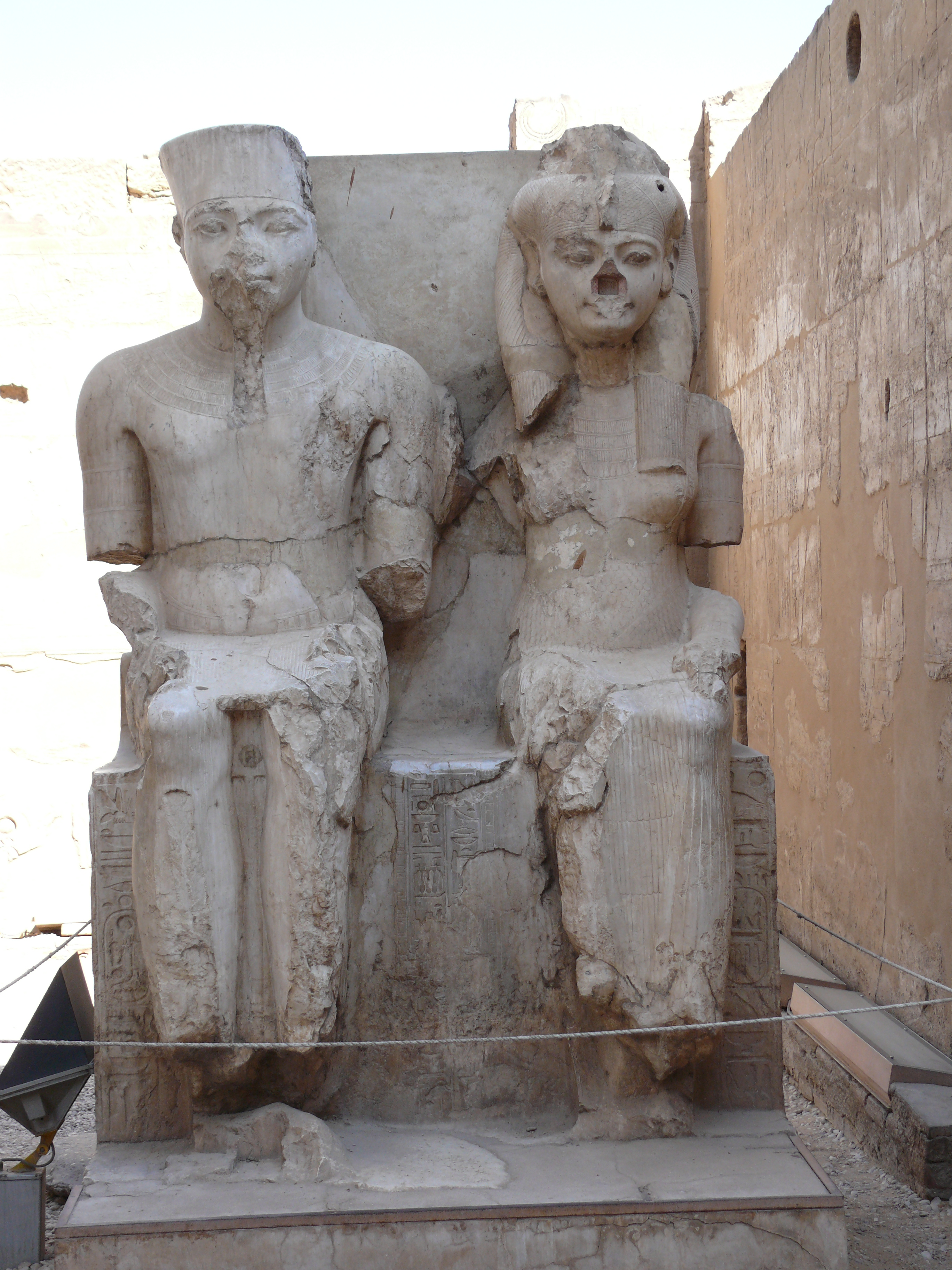 Amun-Ra and Mut. Statues of a young Tutankhamun and his consort Ankesenamun at Luxor Temple, Luxor, Egypt.